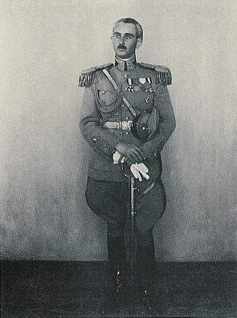 General Hassan Arfa